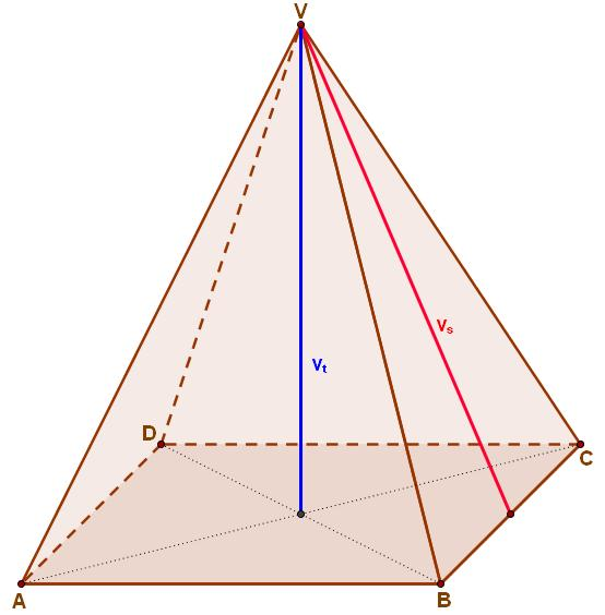 Pyramid with altitudes